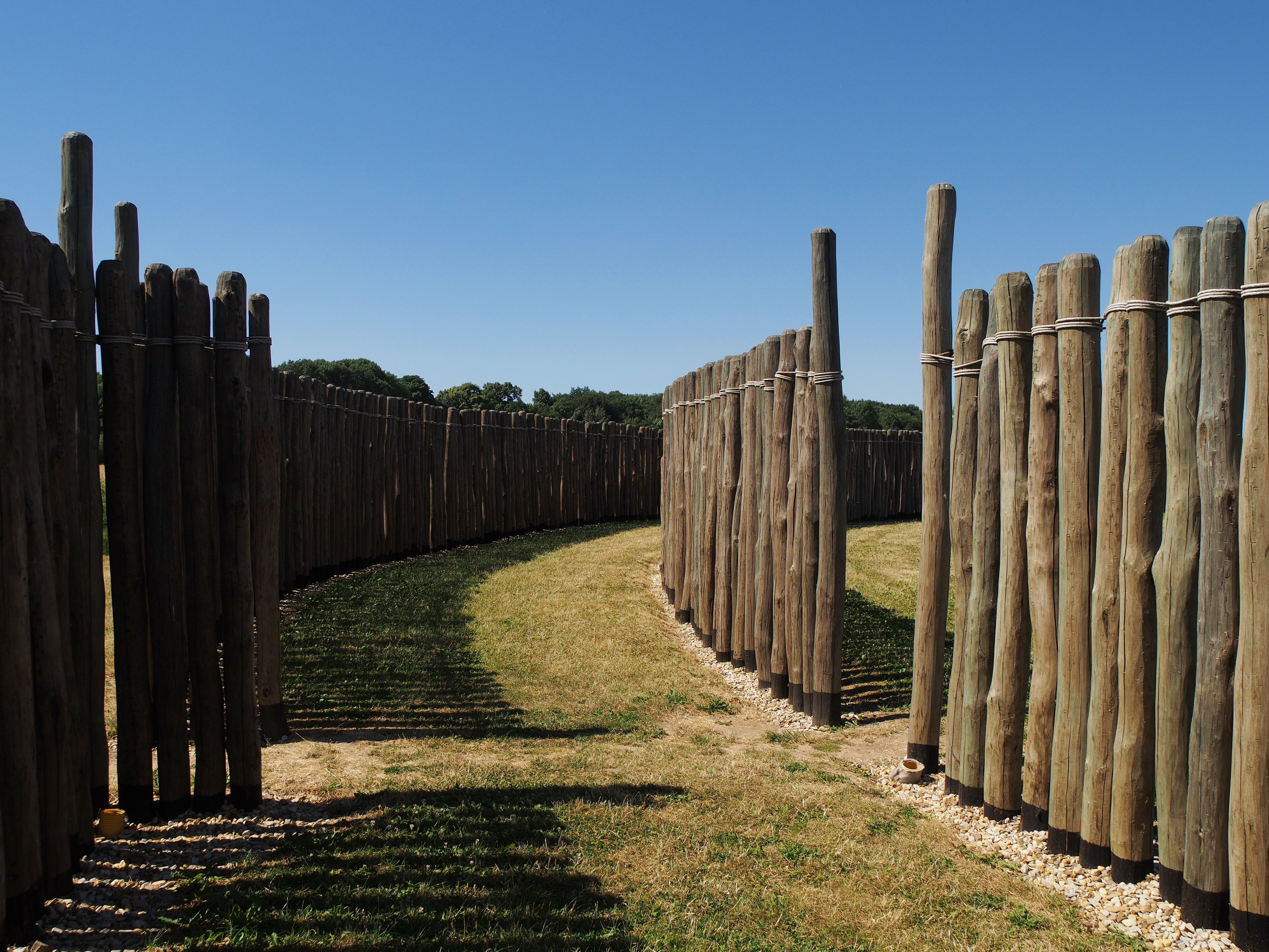 Detail of Goseck Circle (prehistoric solar observatory)